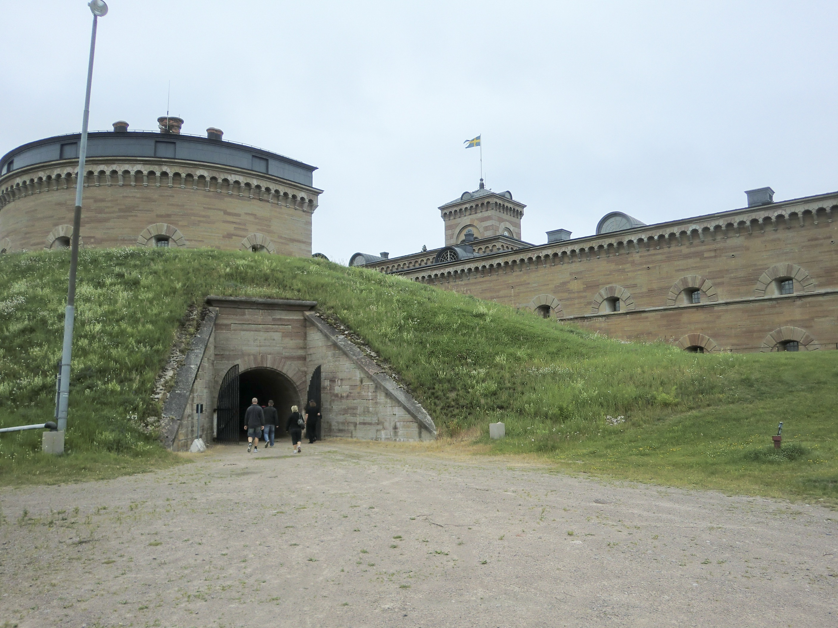 Fortified entrance to the central caponier at the reduit of Karlsborg Fortress, Sweden.